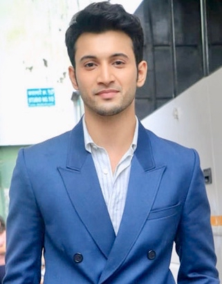 Rohit Saraf promoting The Sky Is Pink in 2019